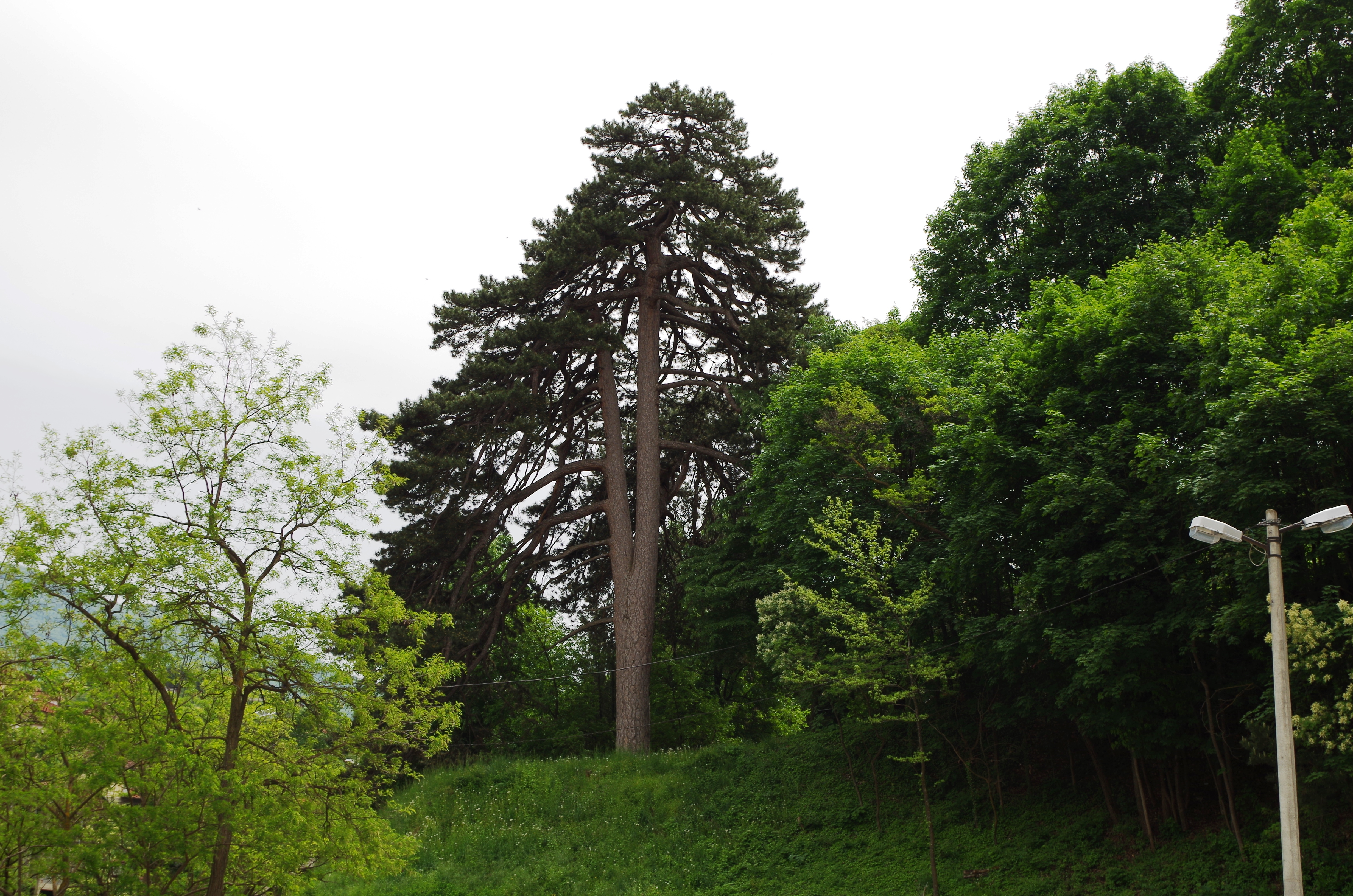 Two oldest trees (pinus) in Kratovo